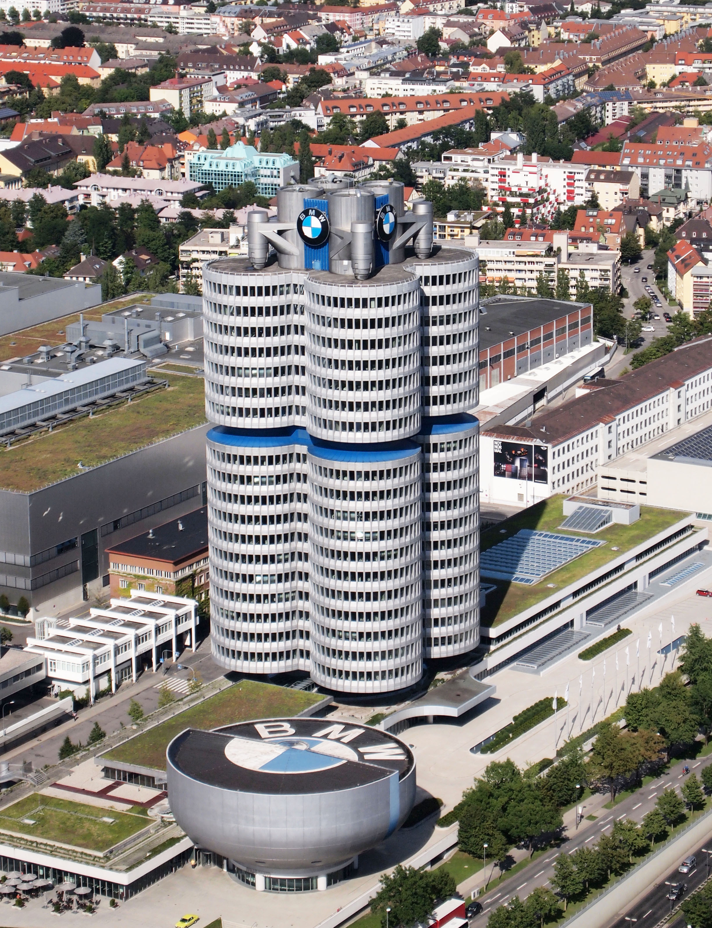 BMW Tower in Munich.This photograph was taken with an Olympus E-PL1